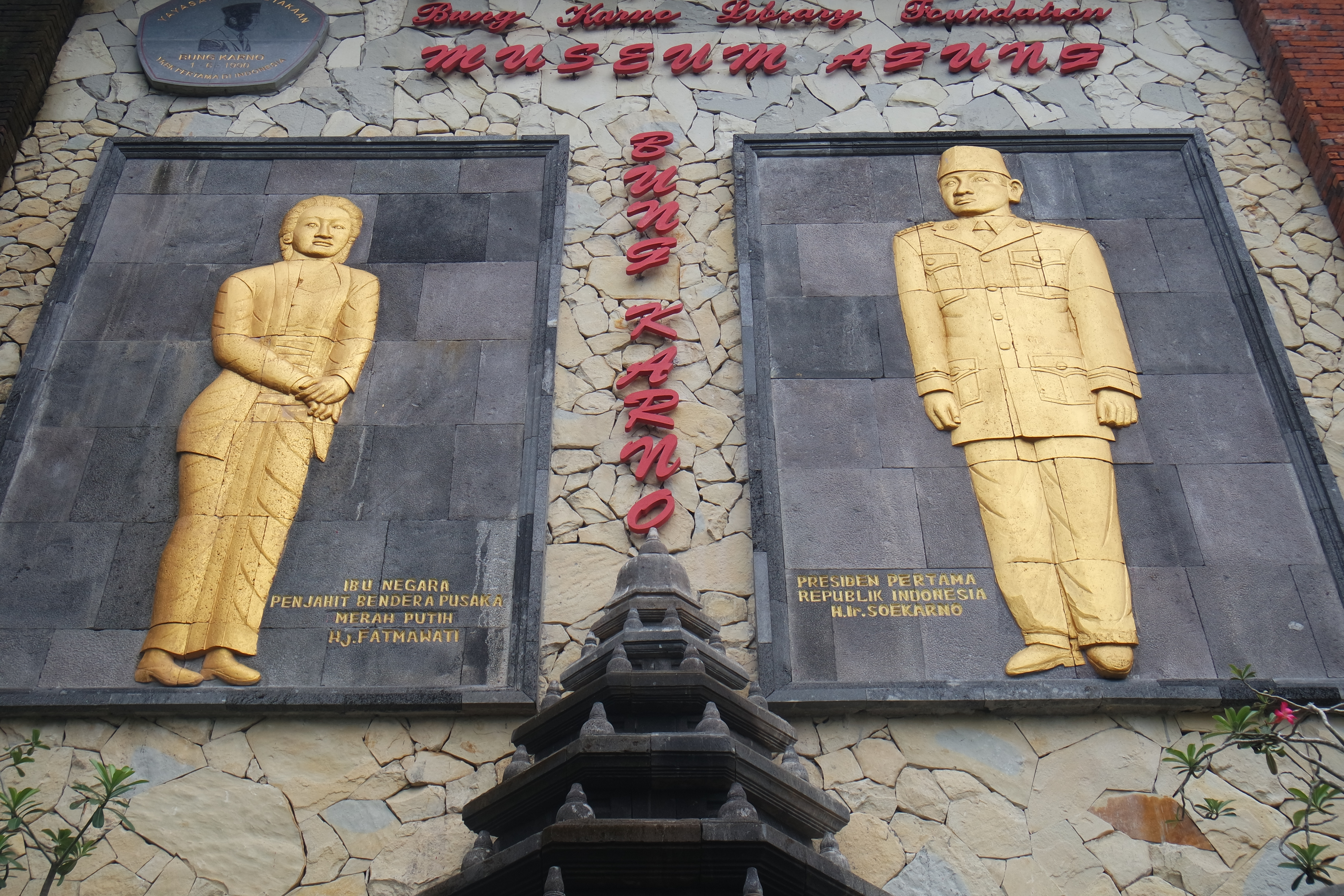 Tampak atas